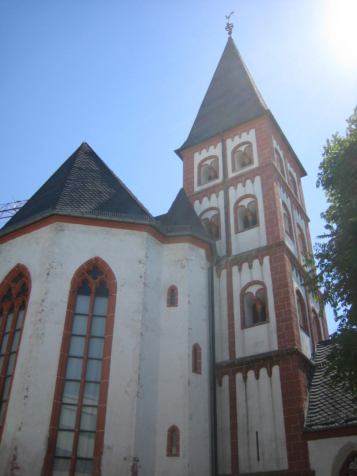 Choir and tower of St. Emmeran/Mainz